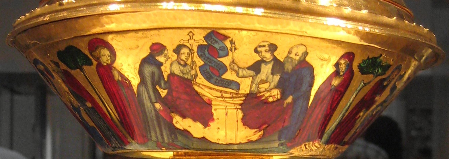 Detail of the Royal Gold Cup showing the burial of Agnes